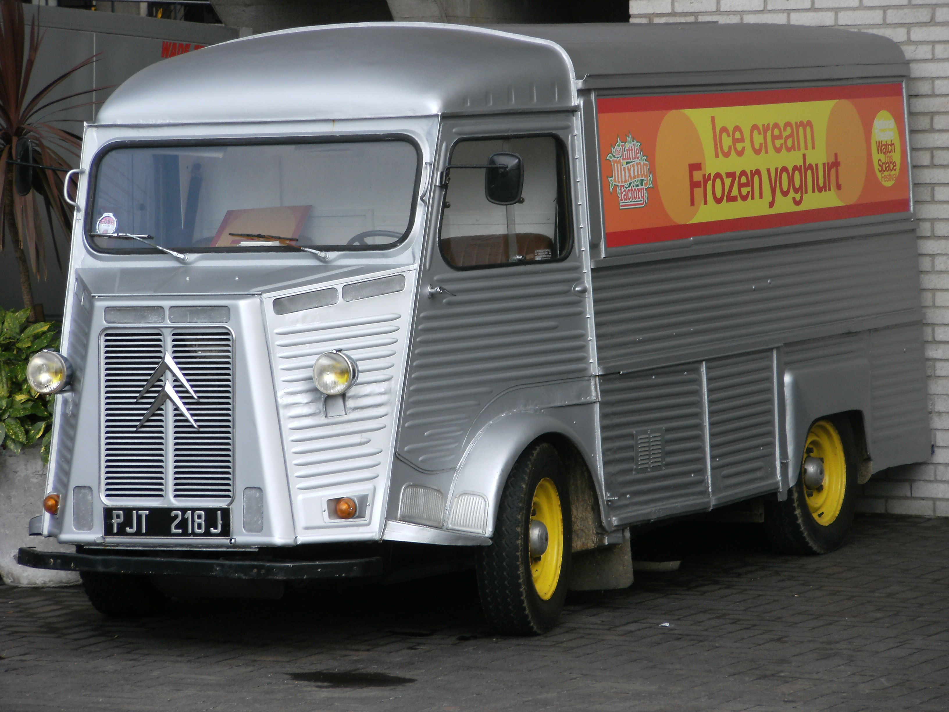 2011-05-30 in London